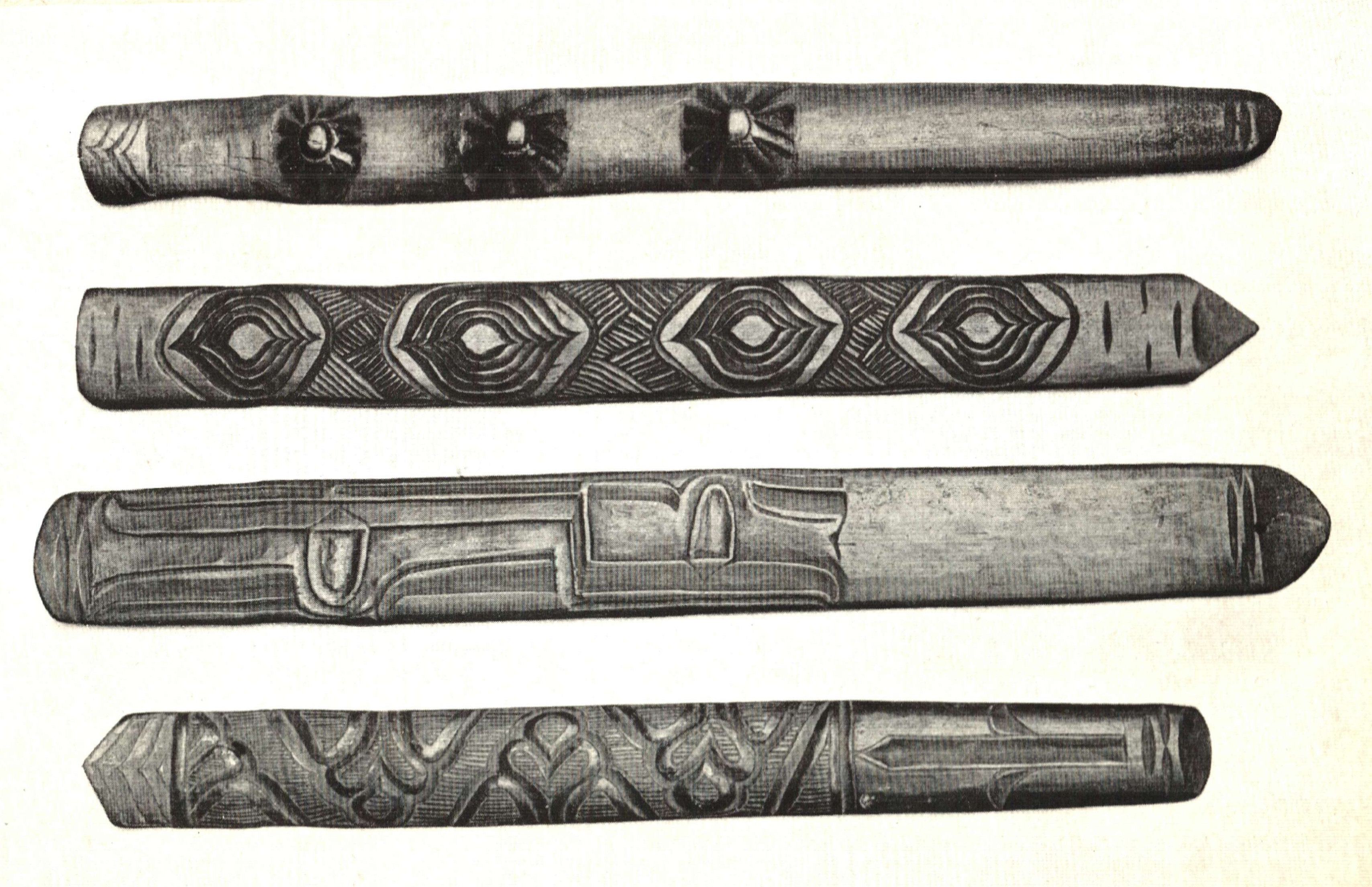 Ikupasuy are carved prayer sticks used by the Ainu people.